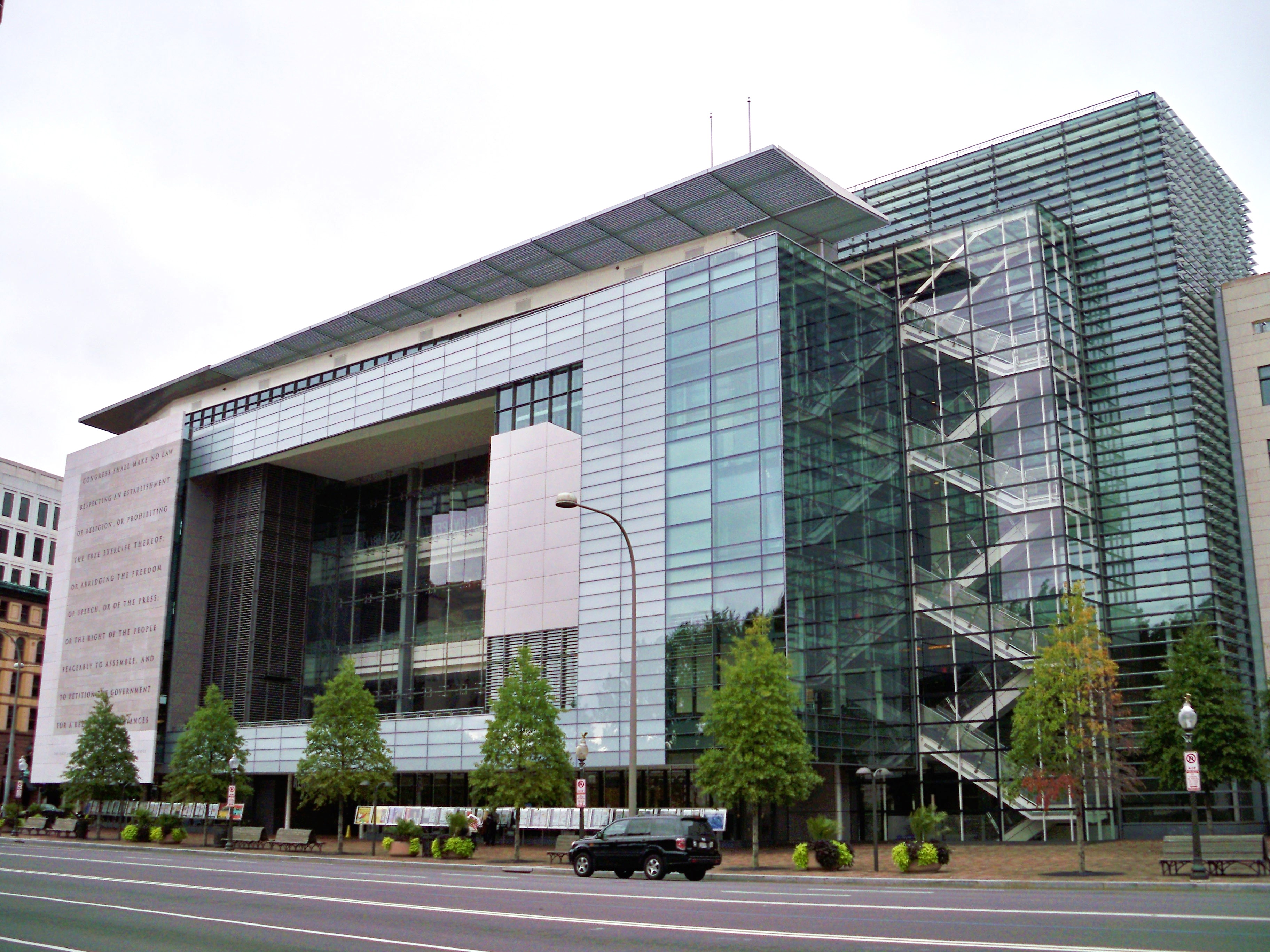 The museum dedicated to news on Pennsylvania Avenue in Washington, DC.